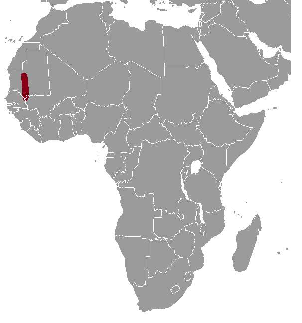 Felovia vae range map